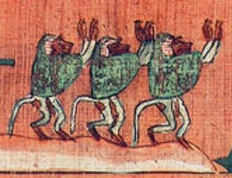 Anch and Sunwheel from a book of the dead, originally created by the egyptian writer Ani.